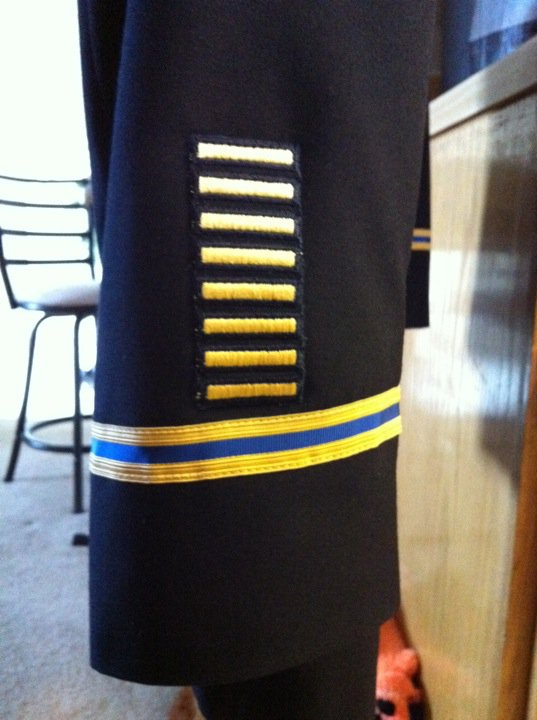 ASU Sleeve